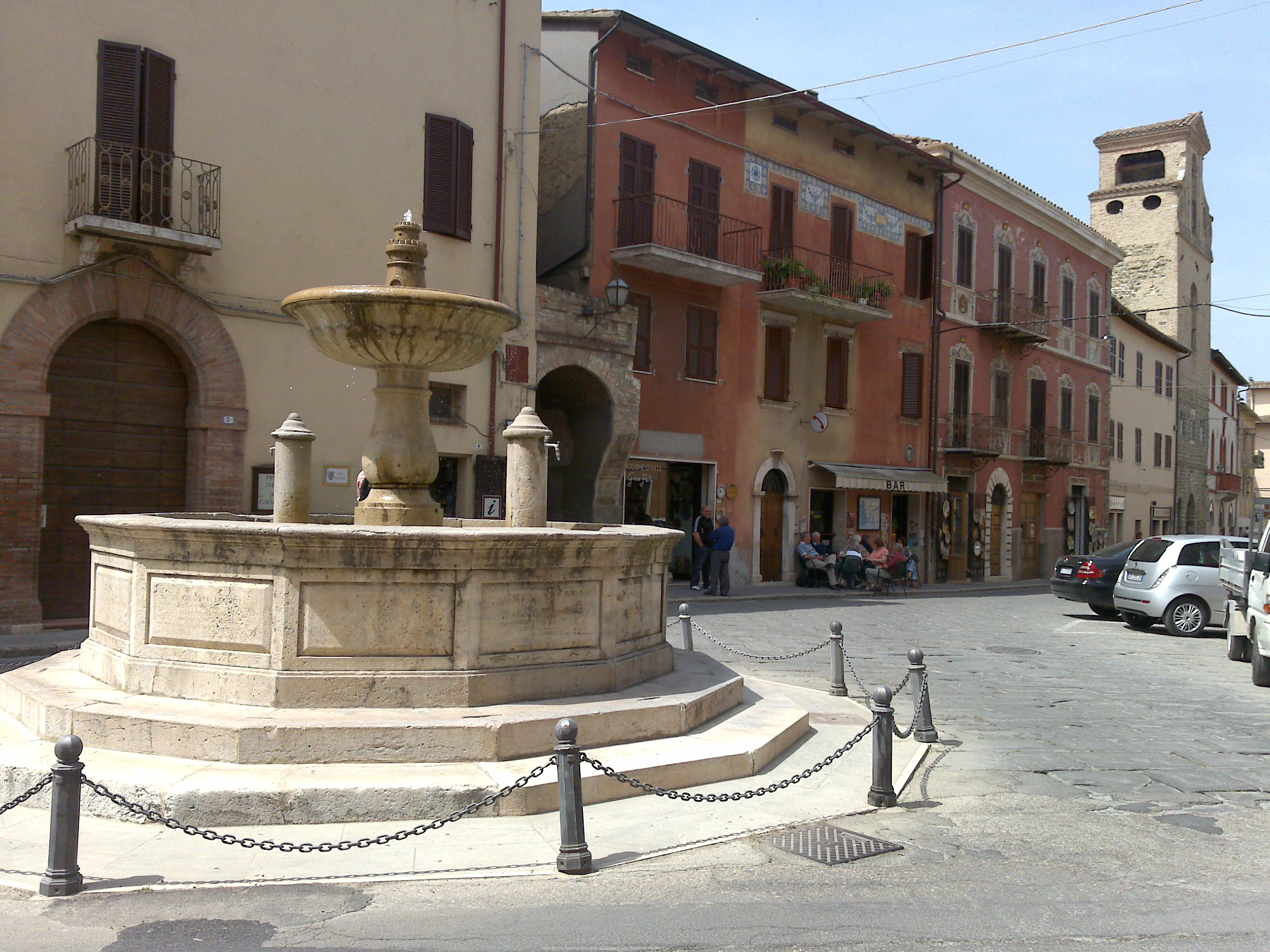 fontana